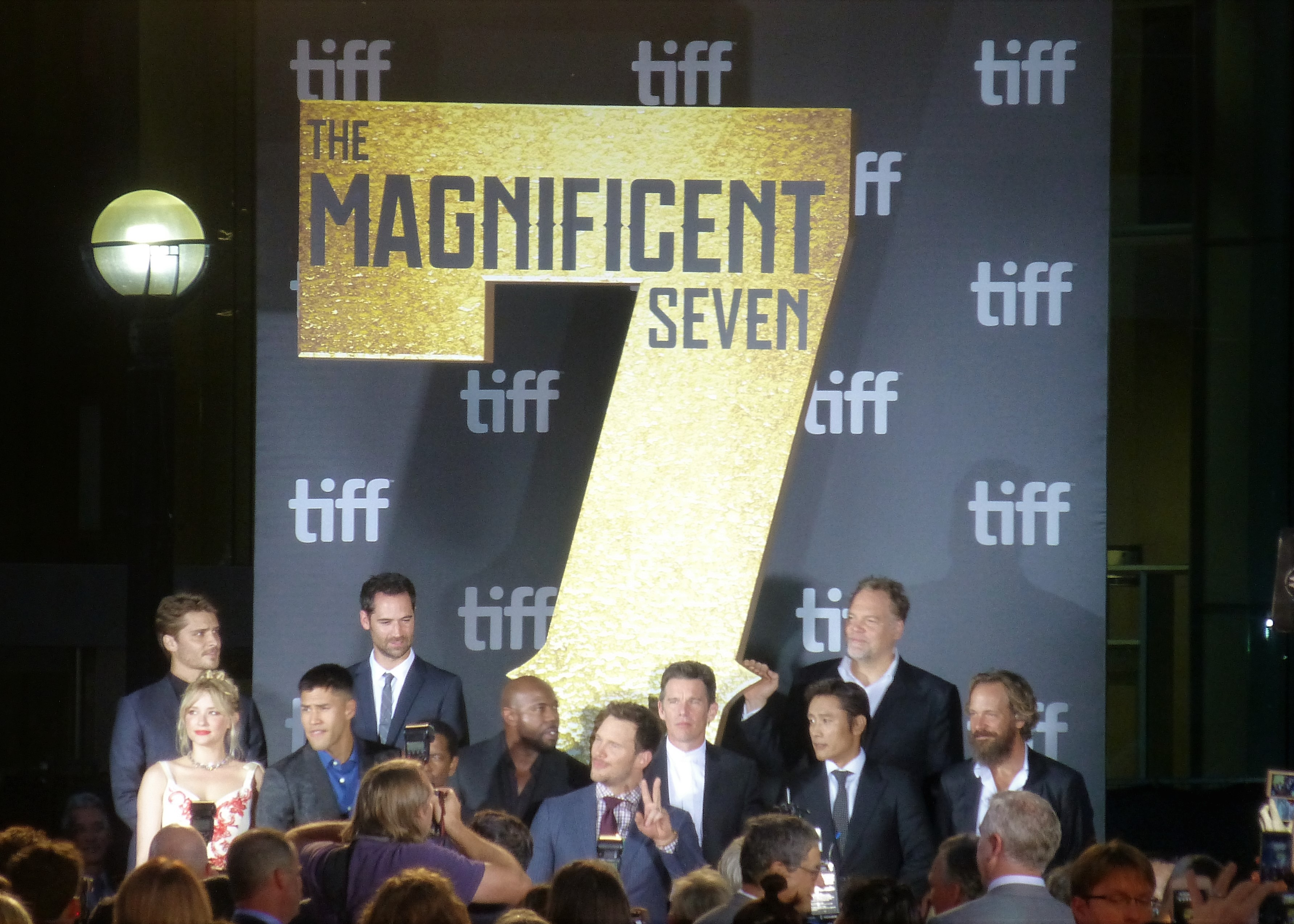 The whole gang at the premiere of The Magnificent Seven, 2016 Toronto Film Festival